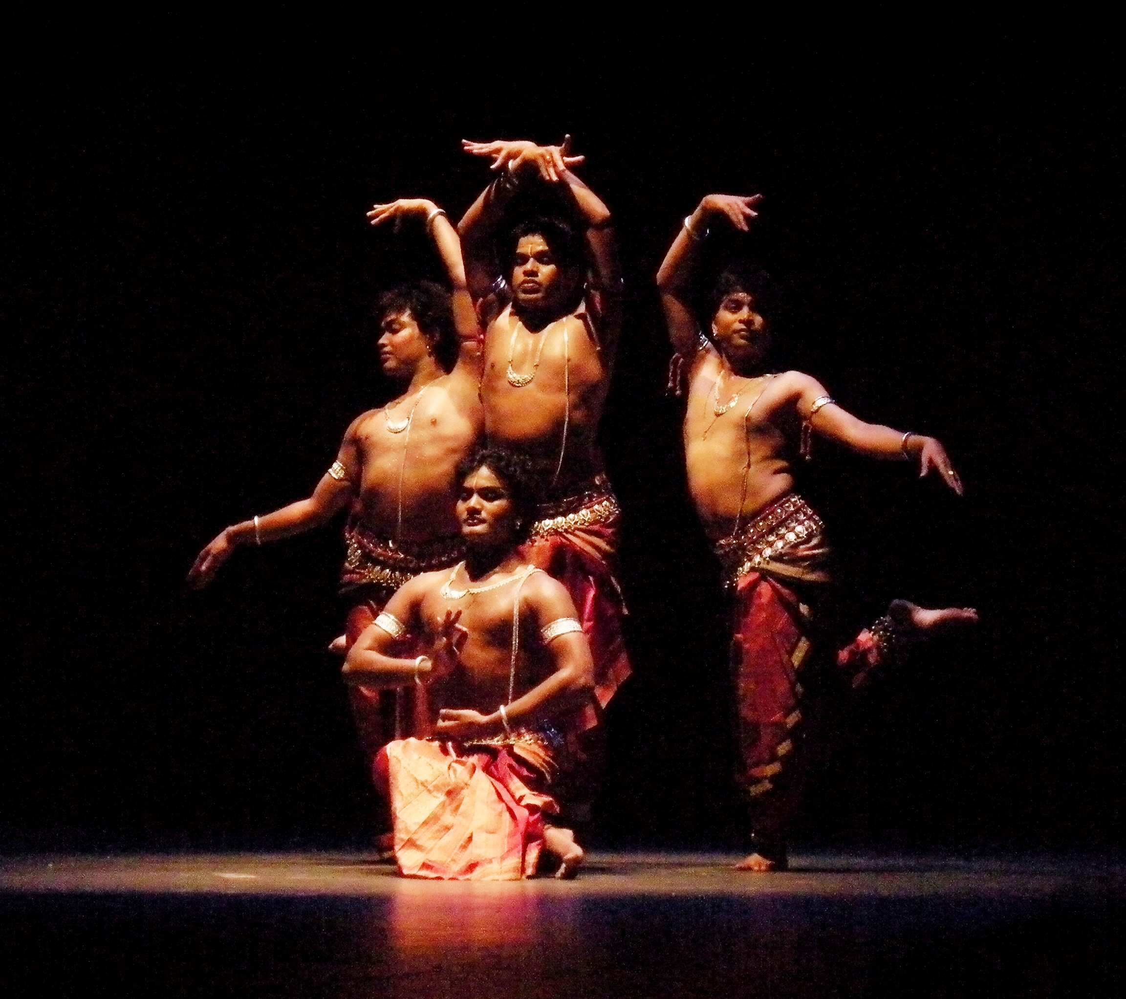 Performance by Odissi dance troupe Rudrakshya (with live musical accompaniment) at Interlake High School, Bellevue, Washington; performance in the Ragamala series (Greater Seattle). Information about the individual performers can be found on the Ragamala site.